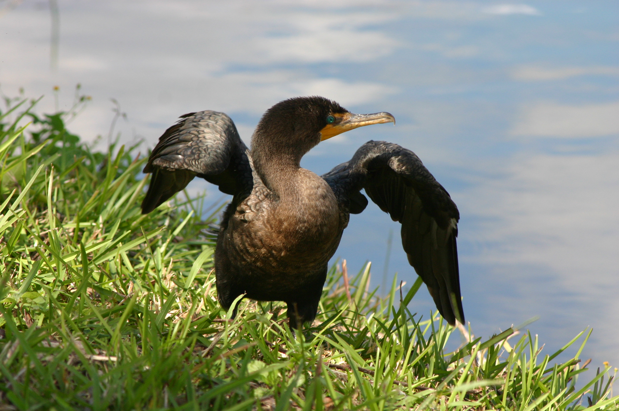 Double crested cormorant (Phalacrocorax auritus) spreading its wings.